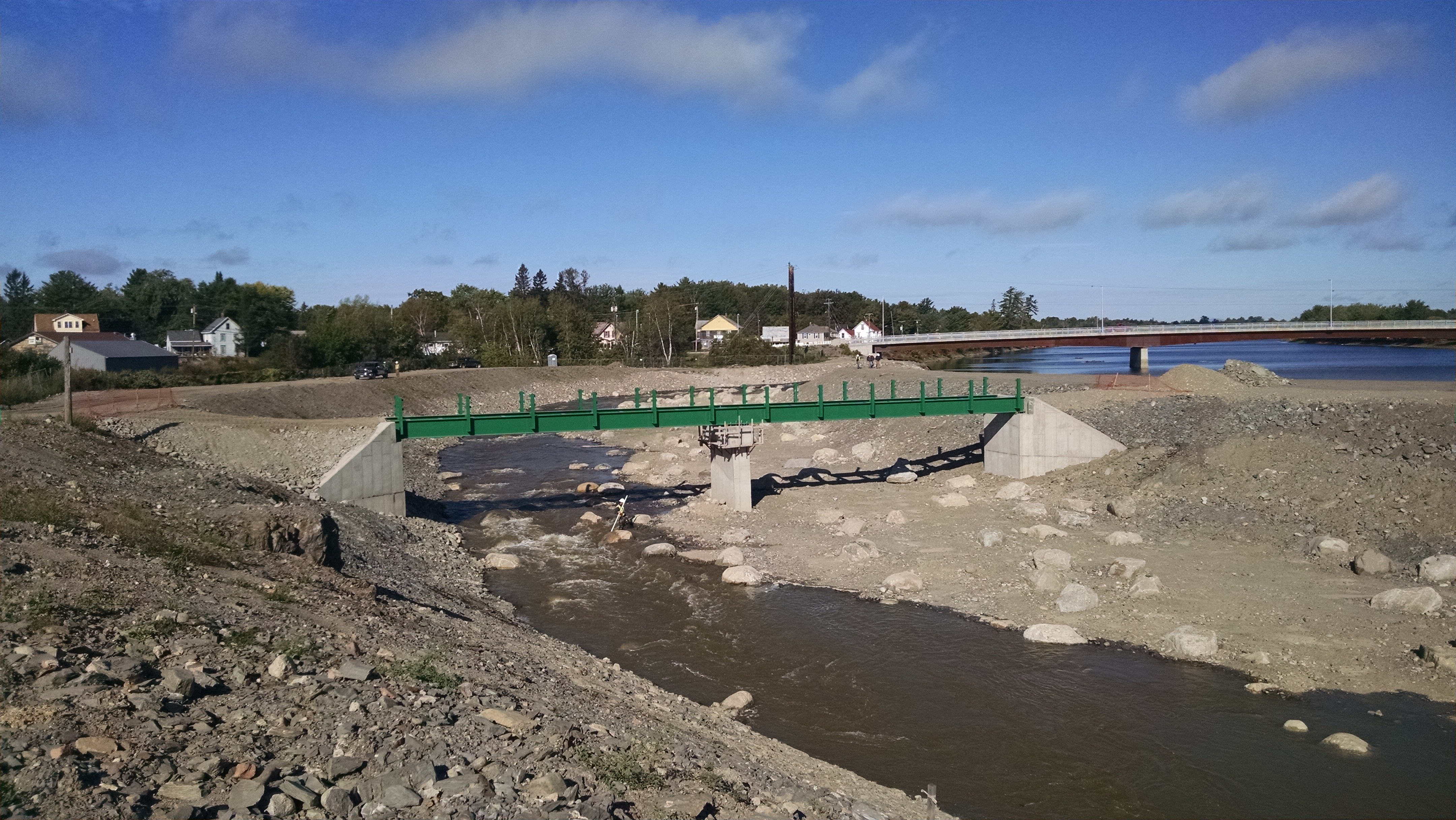 The Howland Dam bypass on the Piscataquis River provides fish more access to native spawning habitat. Photo credit: USFWS